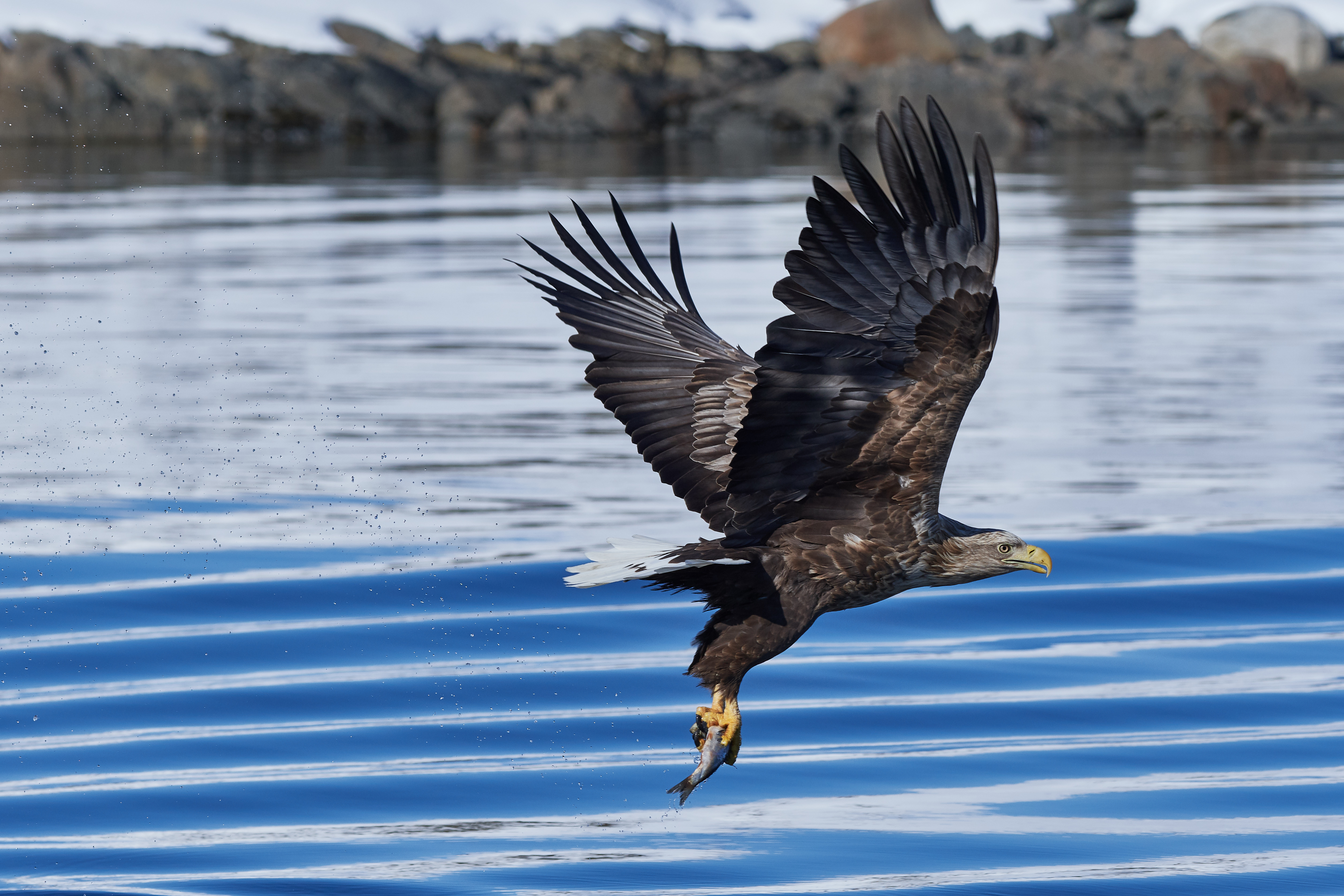 White-tailed eagle grabbing a fish near Raftsund, Lofoten/Norway